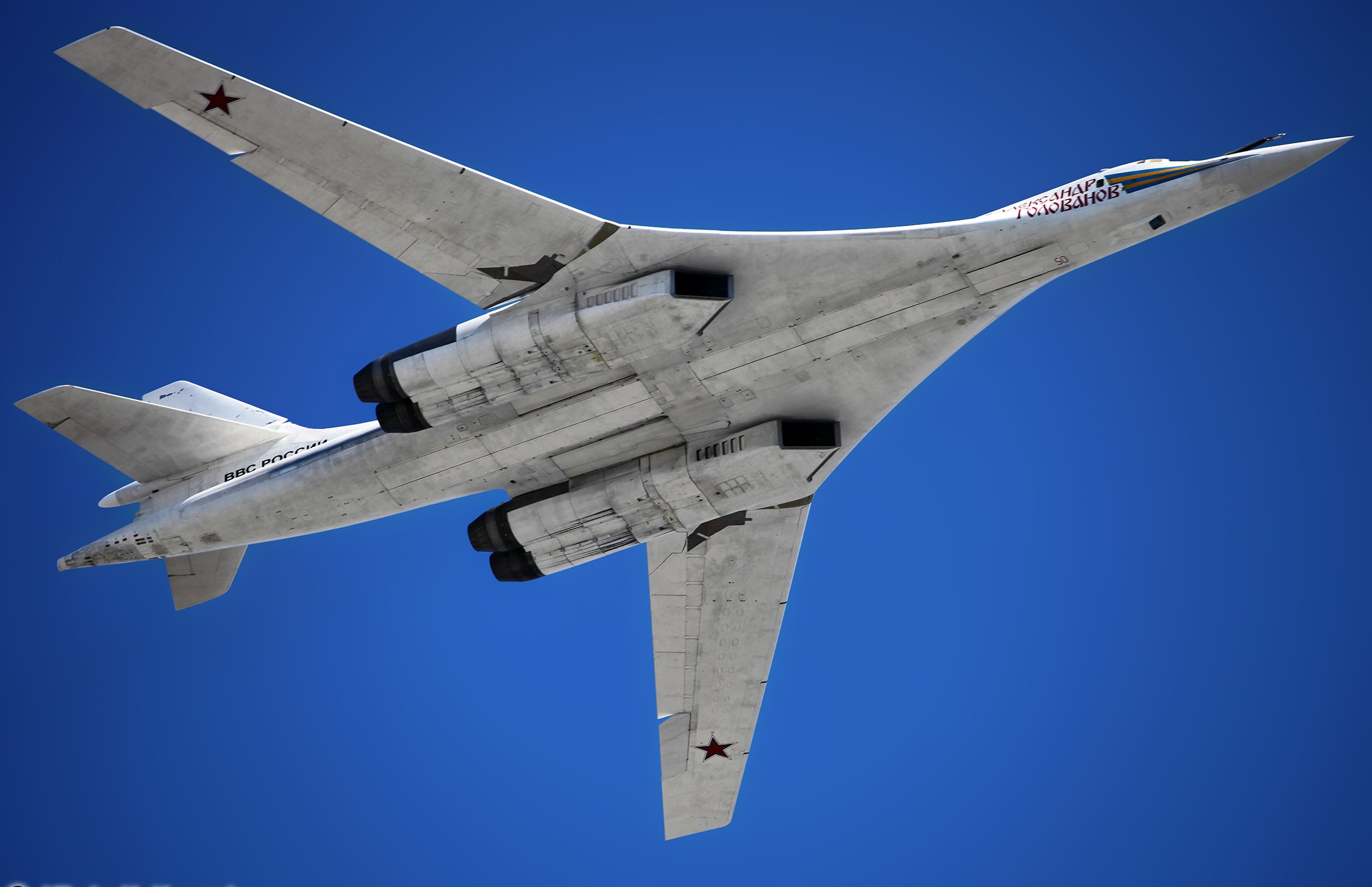 Tu-160